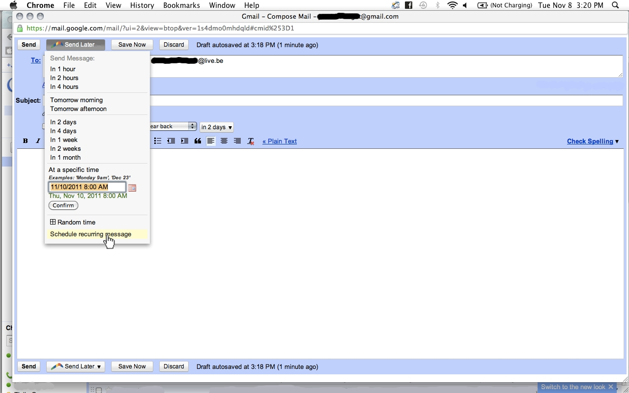 Planning to send recurring e-emails.